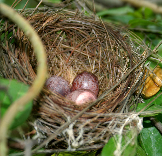 Red-vented Bulbul Pycnonotus cafer at Ananthagiri Hills, in Rangareddy district of Andhra Pradesh, India.